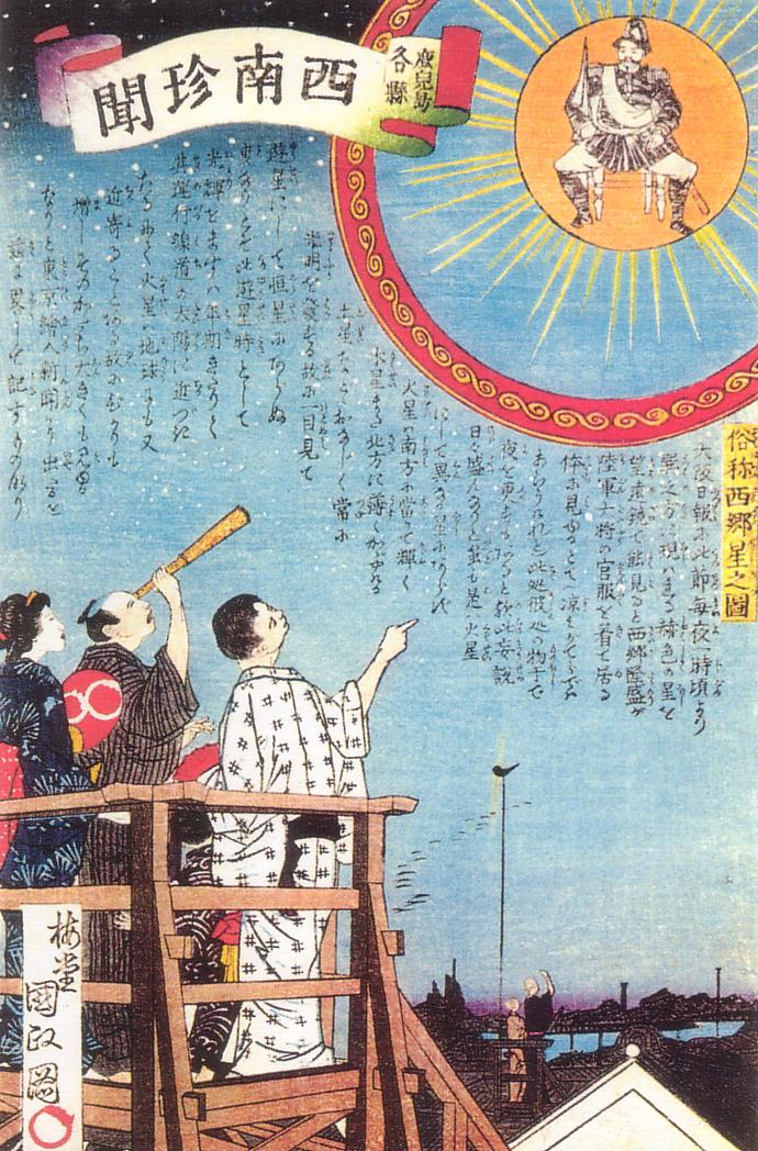 Drawn ukiyoe of 西郷星（Saigo star）